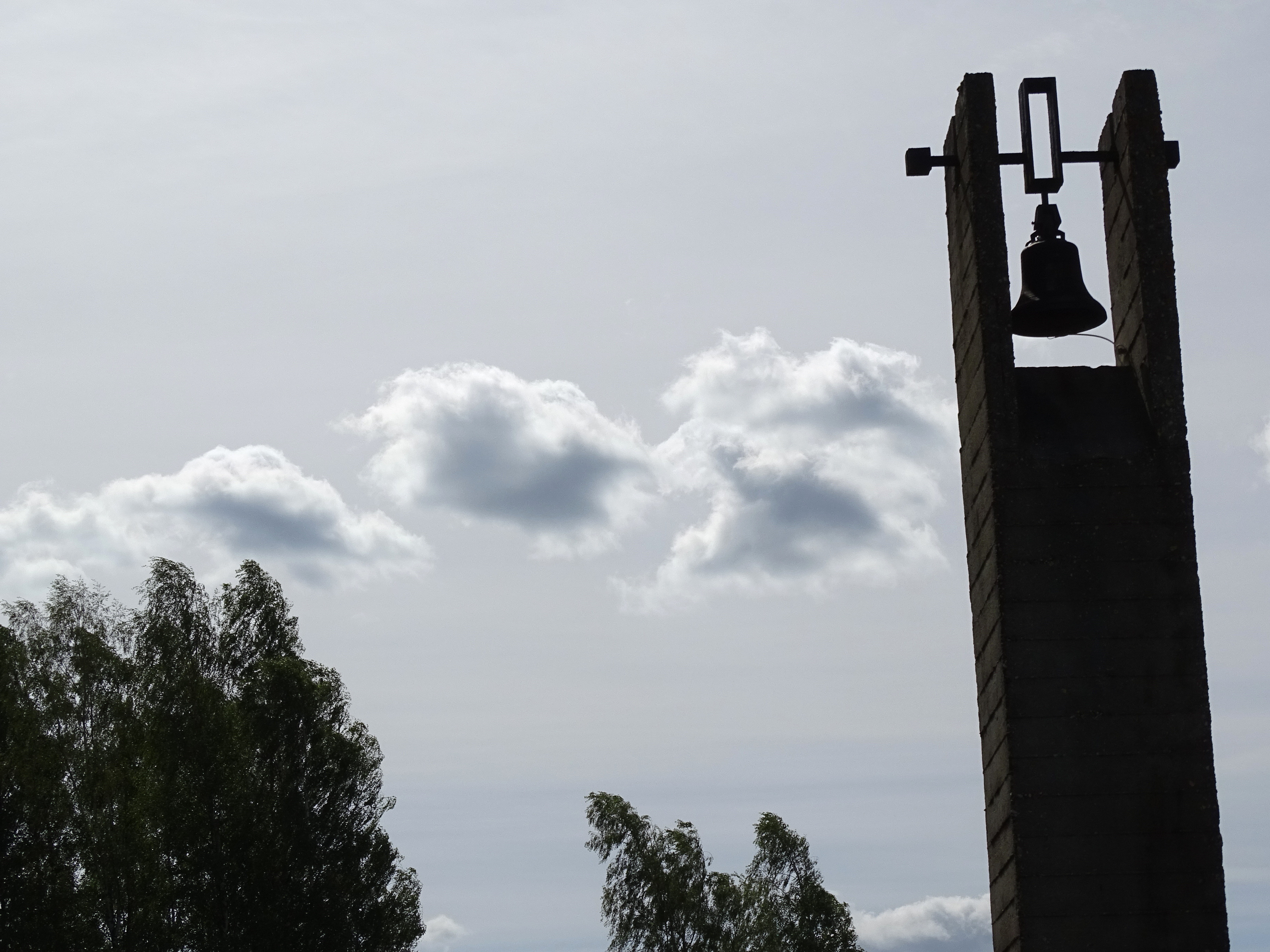 Khatyn National Memorial Complex - Near Minsk - Belarus - 10